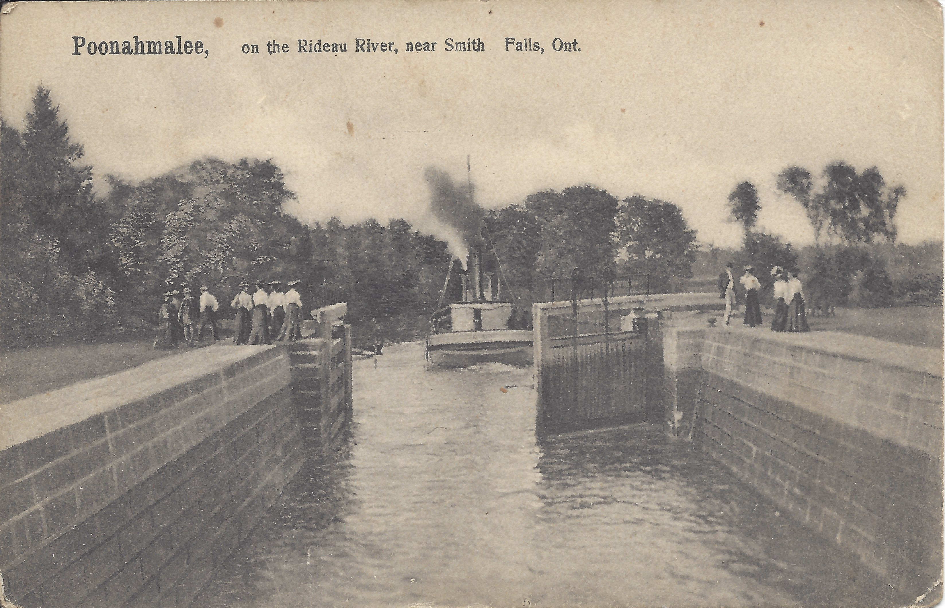 Postcard depicting Poonahmalee lock dated October 15, 1906